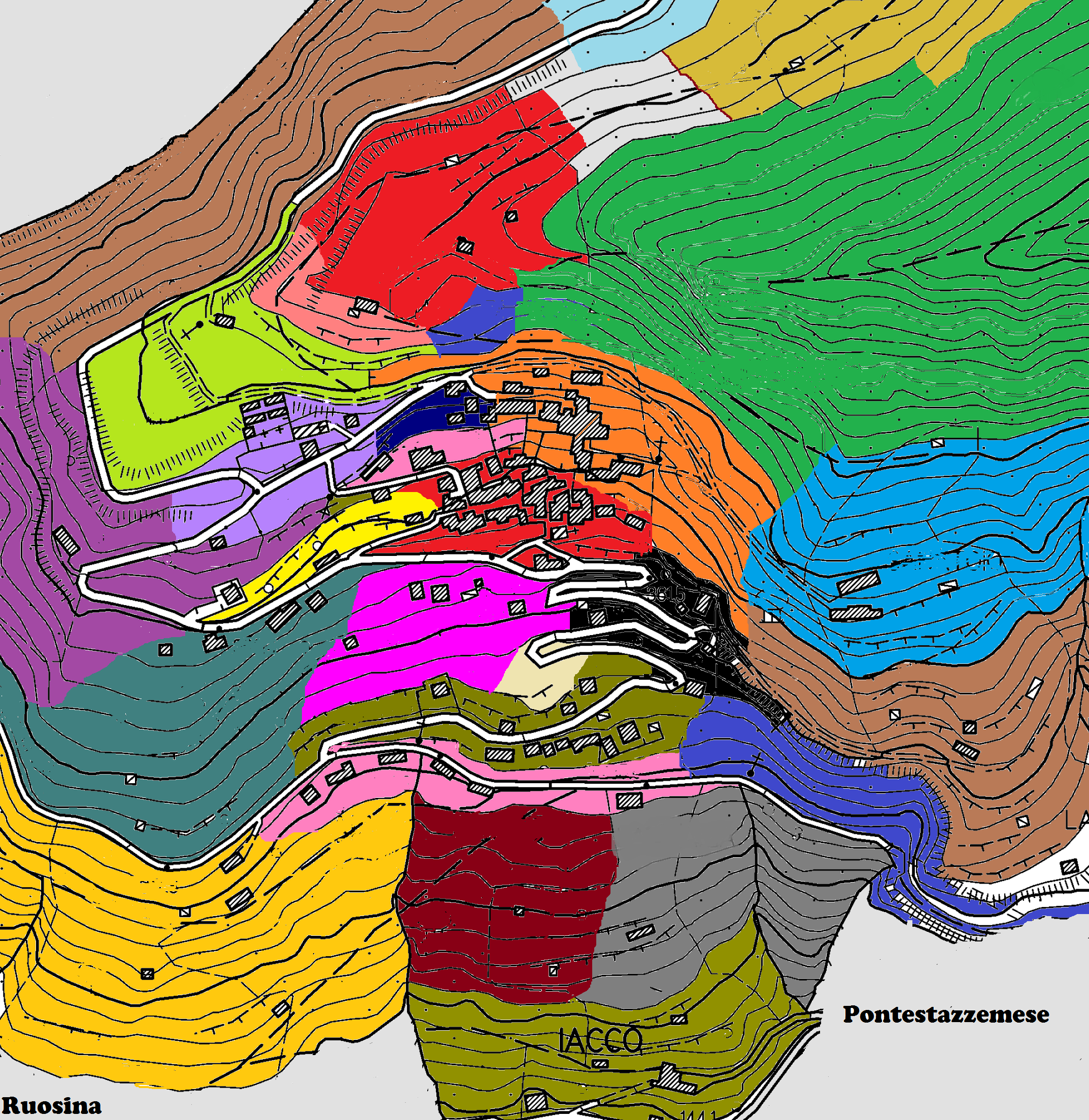 Map showing the different boroughs of Retignano